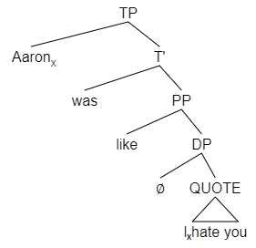 This is a syntax tree of the quotative verb "be like" in English.